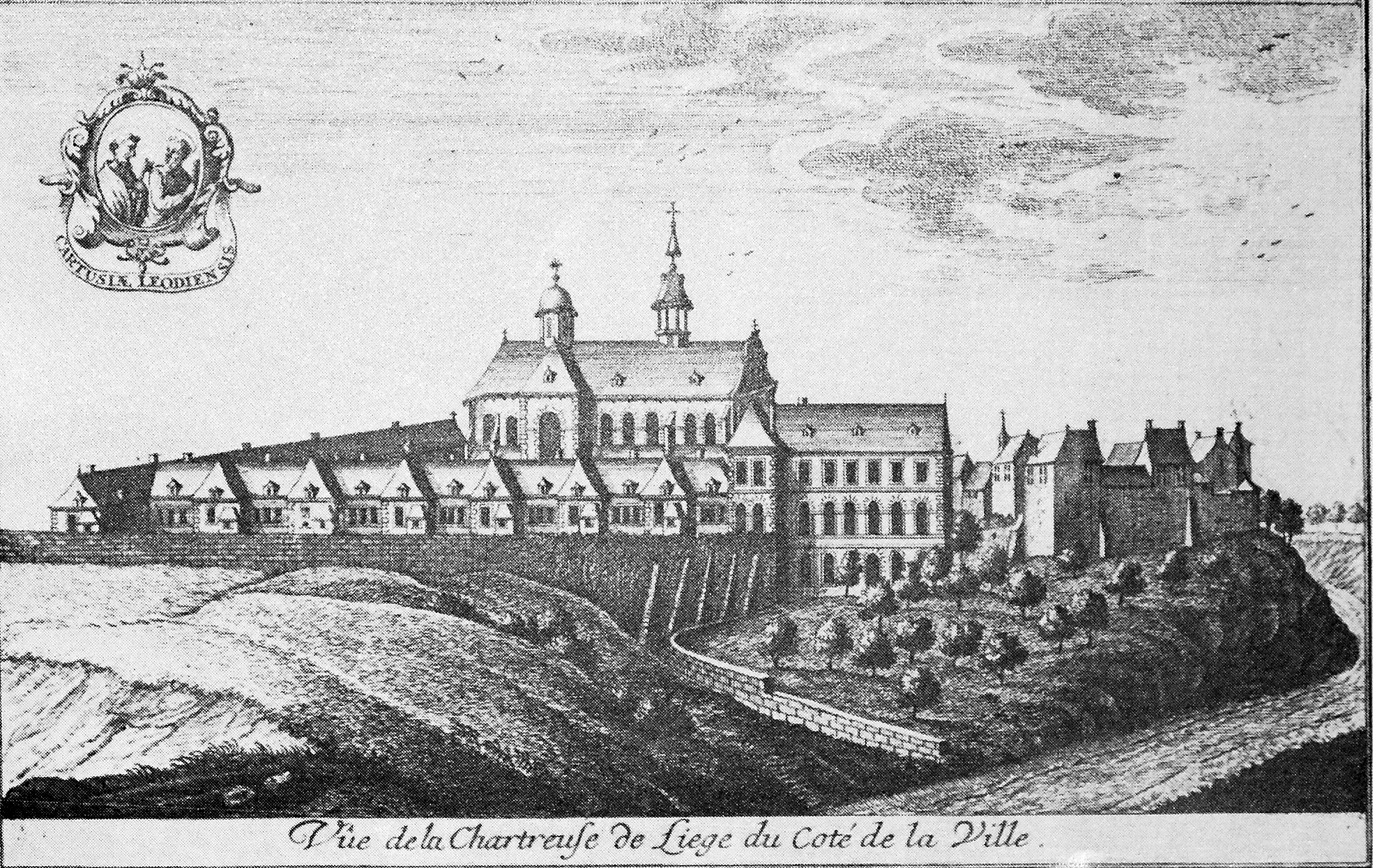 Chartreuse of Liège